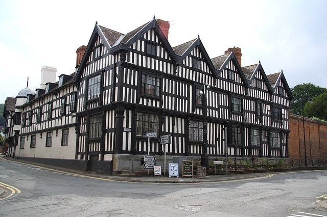 View of the exterior of Ledbury Park, Ledbury, Herefordshire, built ca. 1600 by the Biddulph family. The house has been called the finest black & white house in England by the architecture critic Nikolaus Pevsner.[1]